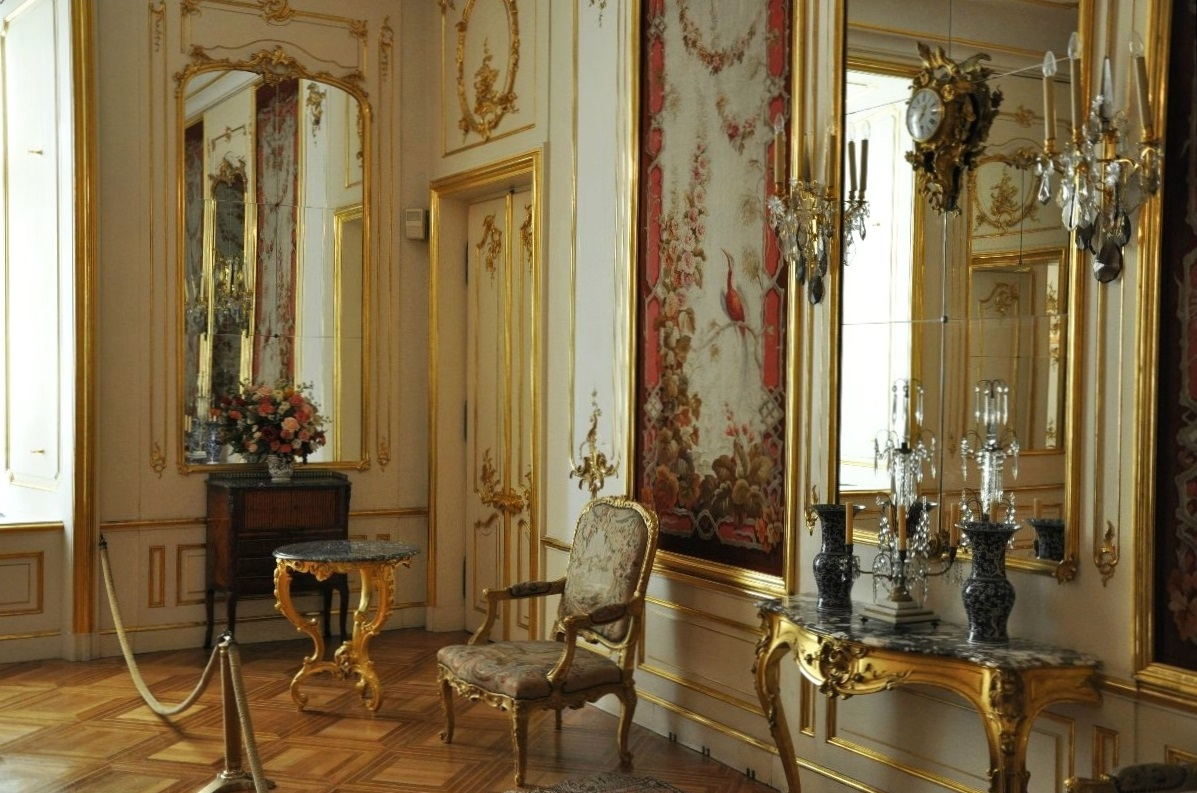 The Antechamber of the Crown Prince's Apartment at the Royal Castle in Warsaw.